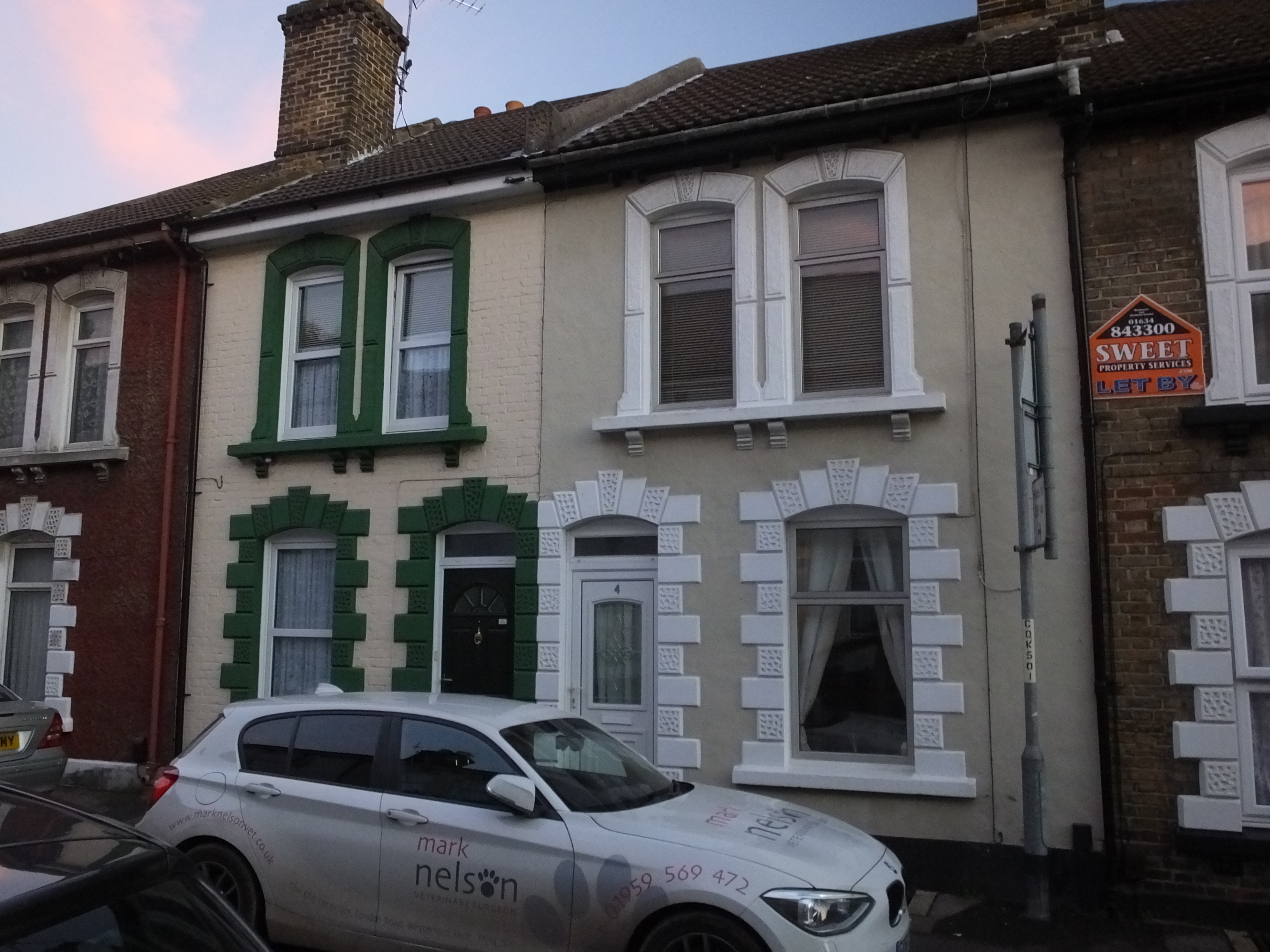 Byelaw terraced houses in Strood, Kent.